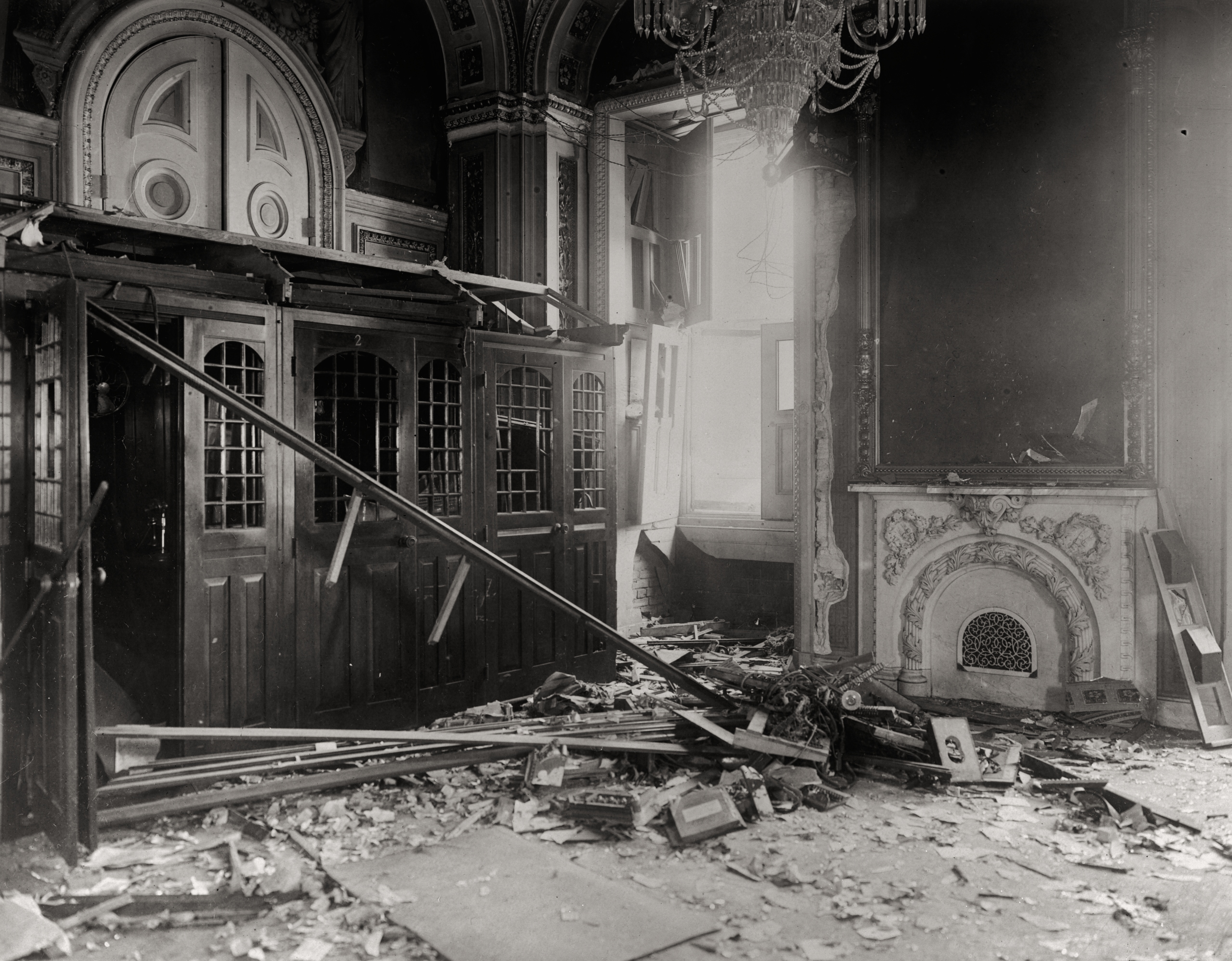 Aftermath of the bombing of Senate reception room of the Capital Dome committed by Eric Muenter on 2nd July 1915.